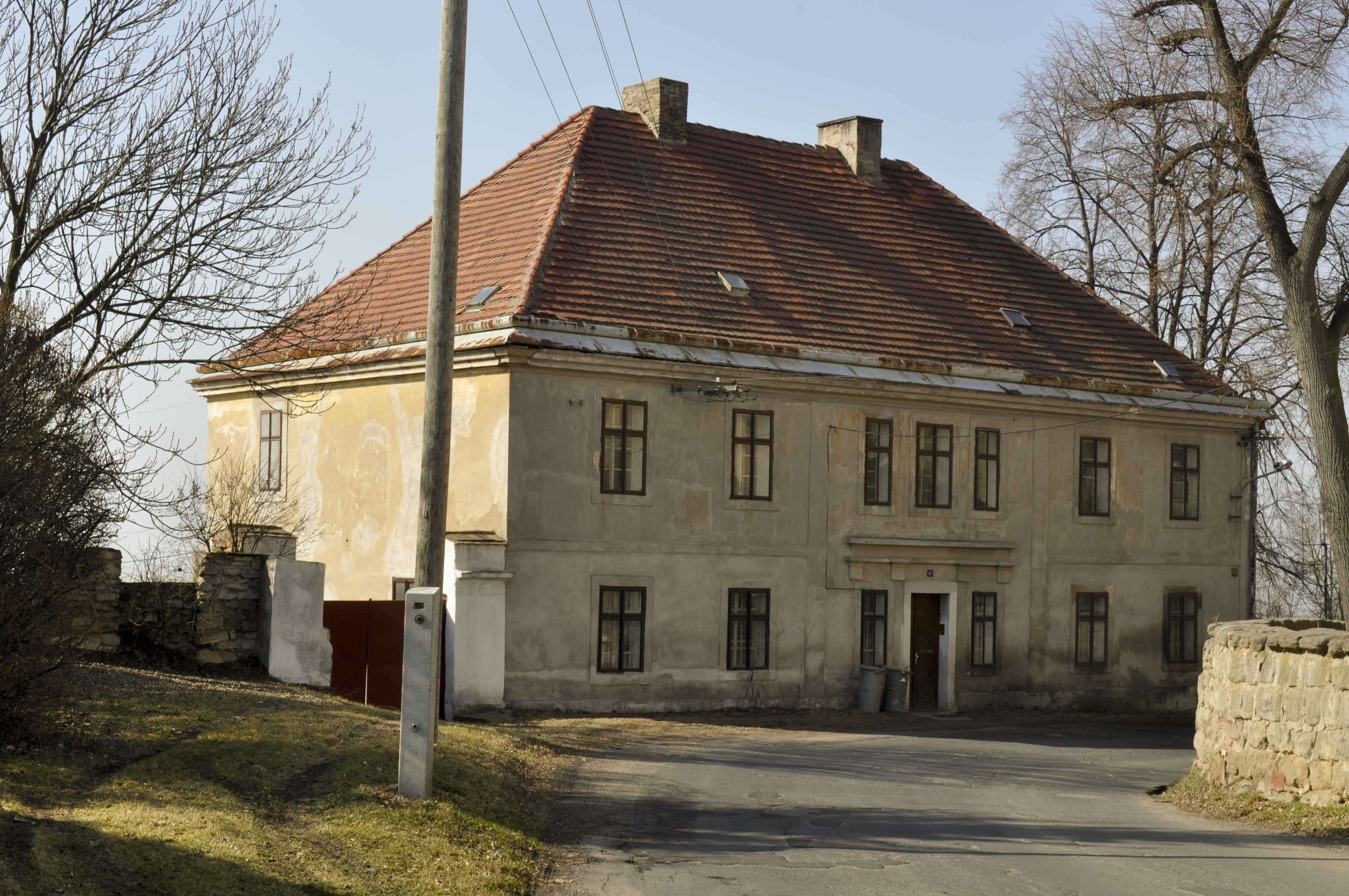 Rectory, Chcebuz, Ústí nad Labem Region